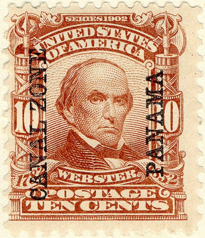 US regular issues of 1902-1903, overprinted for use as Canal Zone stamps, issued on July 19, 1904